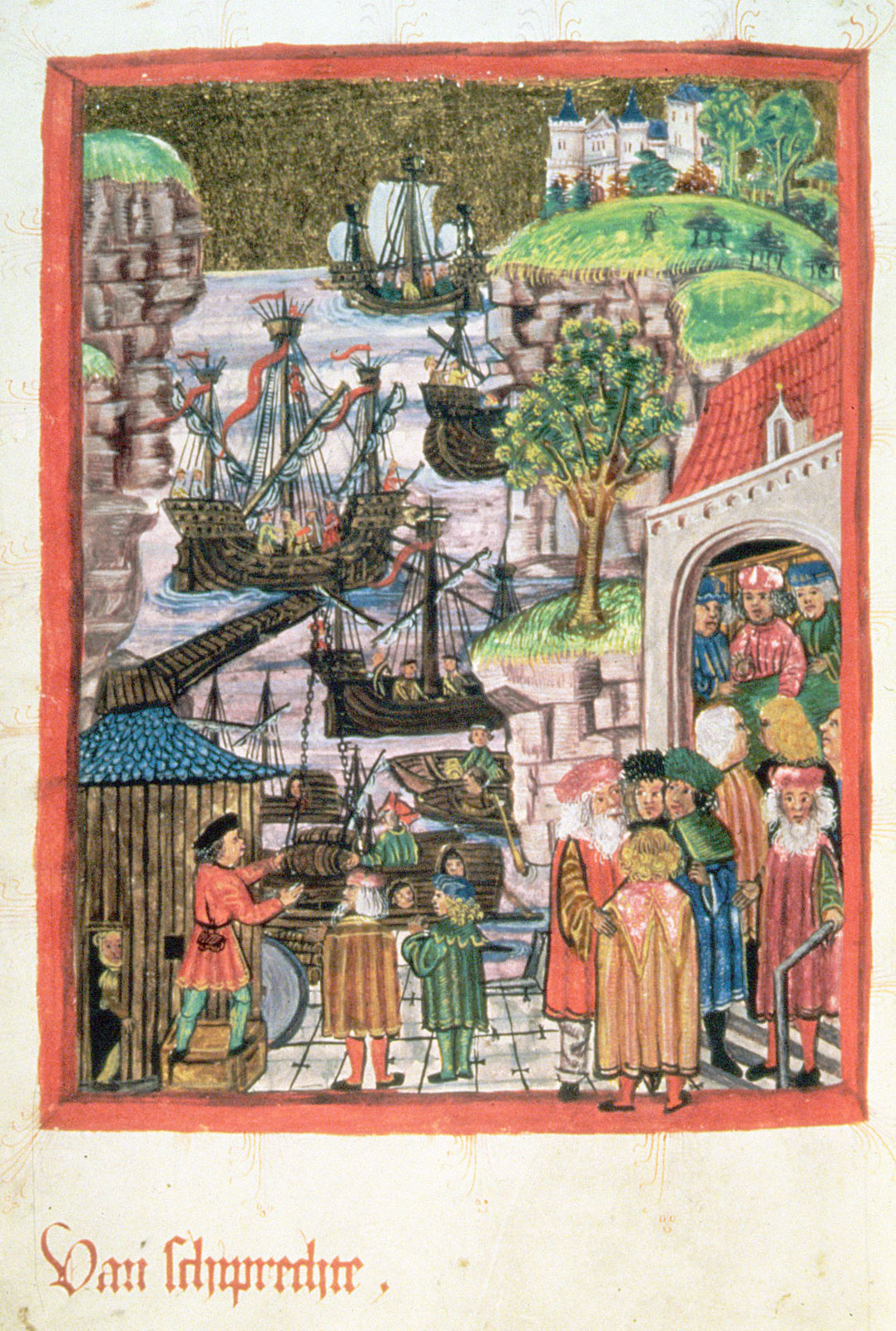 Hamburg Ship Law. Cover picture from the section on sea law 'Van schiprechte' ('Of shipping laws' in Middle Low German) of the Hamburg town law from 1497. See here for more.